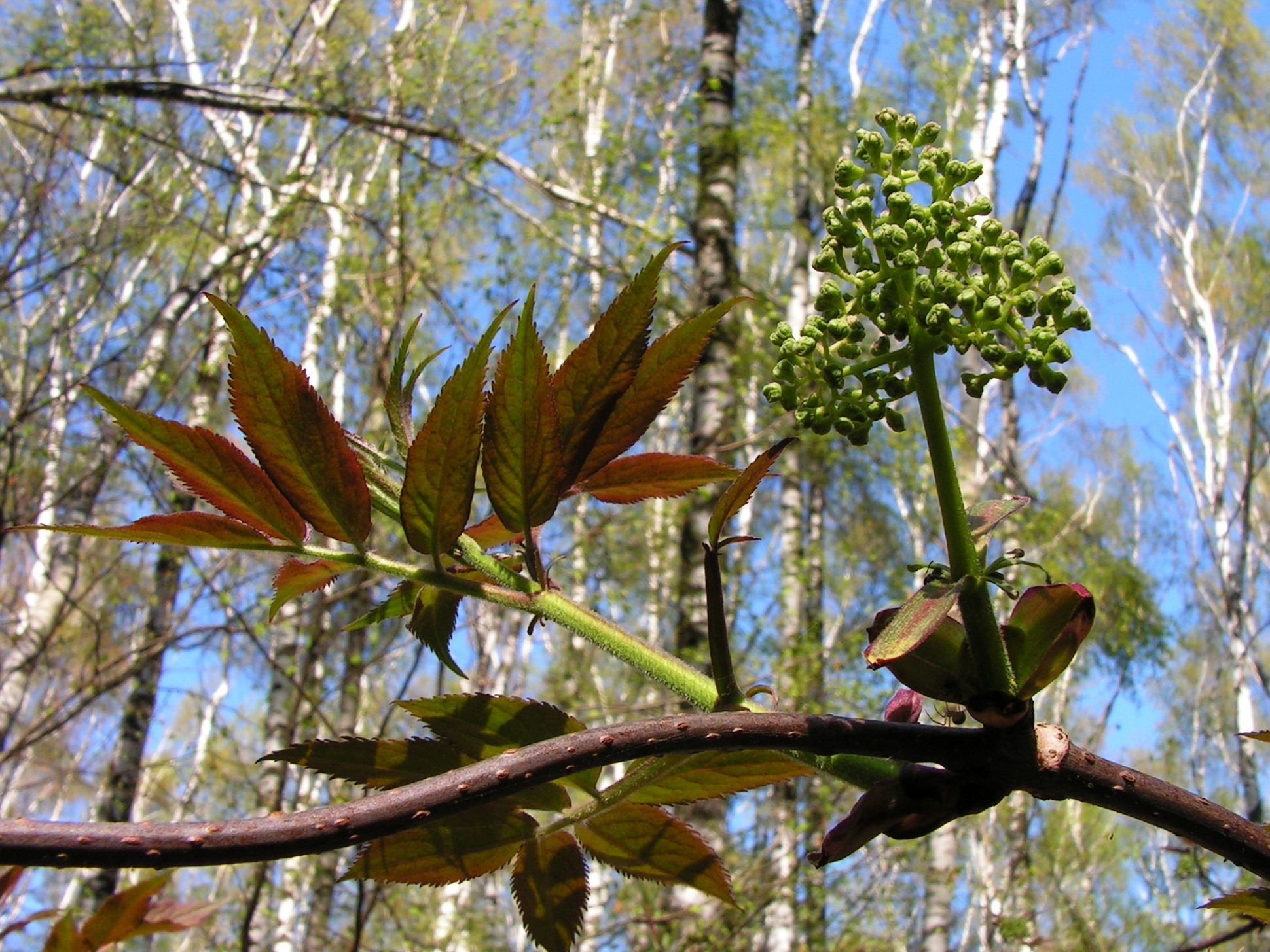 Red Elderberry with young leaves and unopened flowers. Moscow region, Russia.